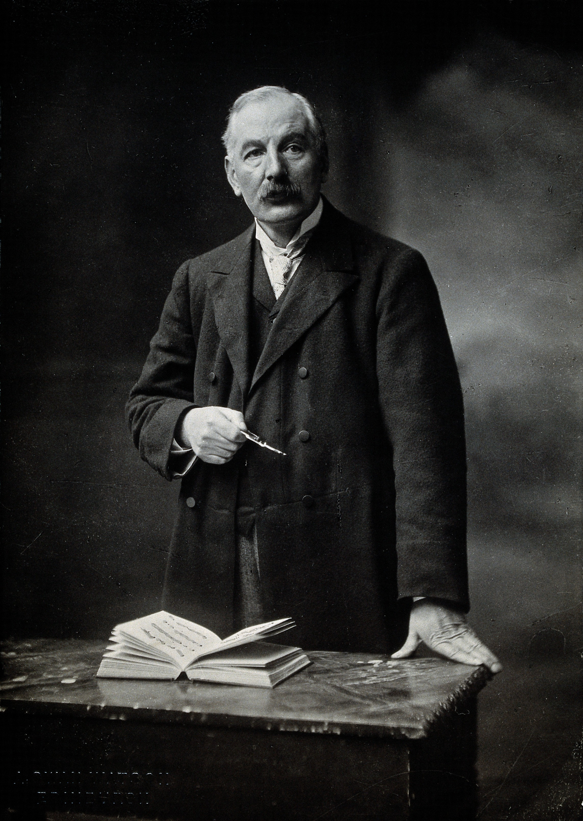 Sir Byrom Bramwell. Photograph by A. Swan Watson. Iconographic Collections Keywords: portrait photographs